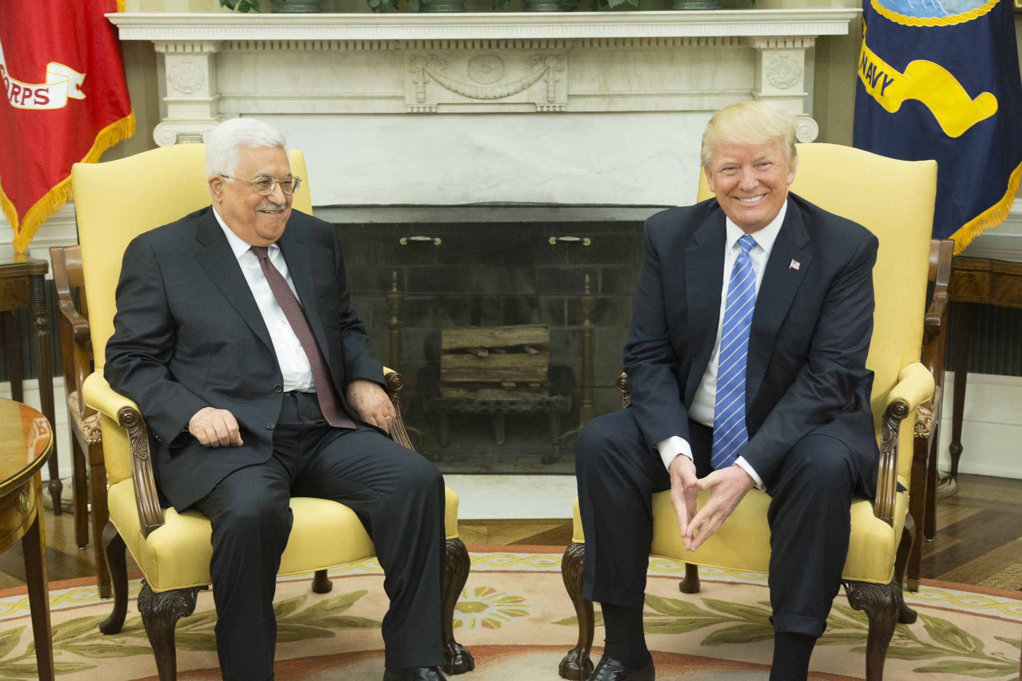 President Donald Trump and President of the Palestinian Authority Mahmoud Abbas meet, Wednesday, May 3, 2017, in the Oval Office of the White House in Washington, D.C. (Official White House Photo by Shealah Craighead)